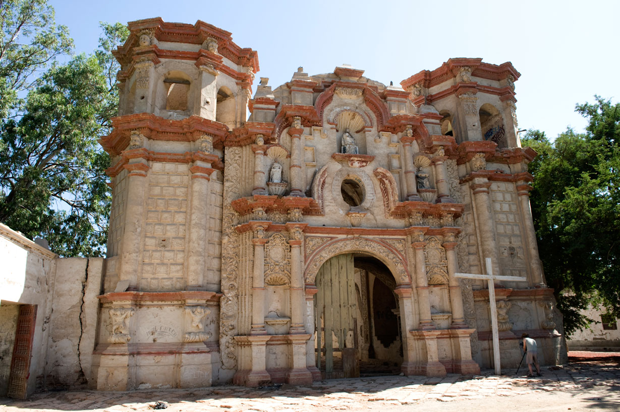 Iglesia jesuita de San Javier, Nasca, Perú